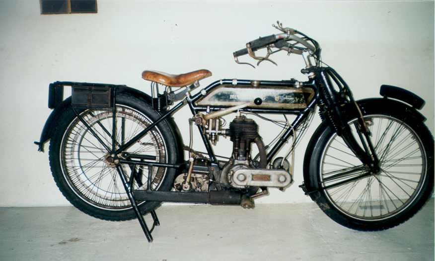 Toestemming van Yesterdays Antique Motorcycles ( categorie:afbeelding motorfiets